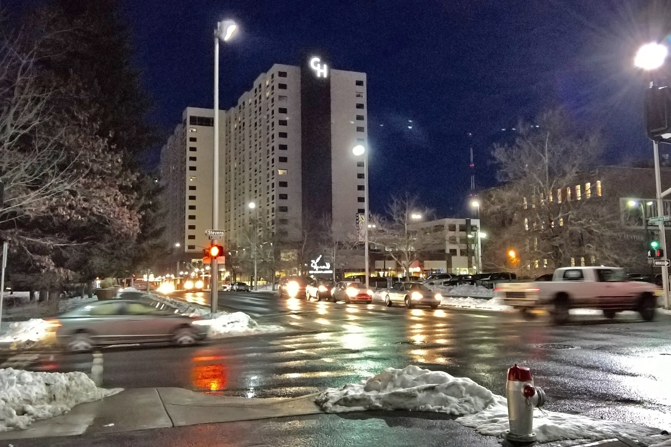 The Davenport Grand Hotel (located in Spokane, Washington) at night.